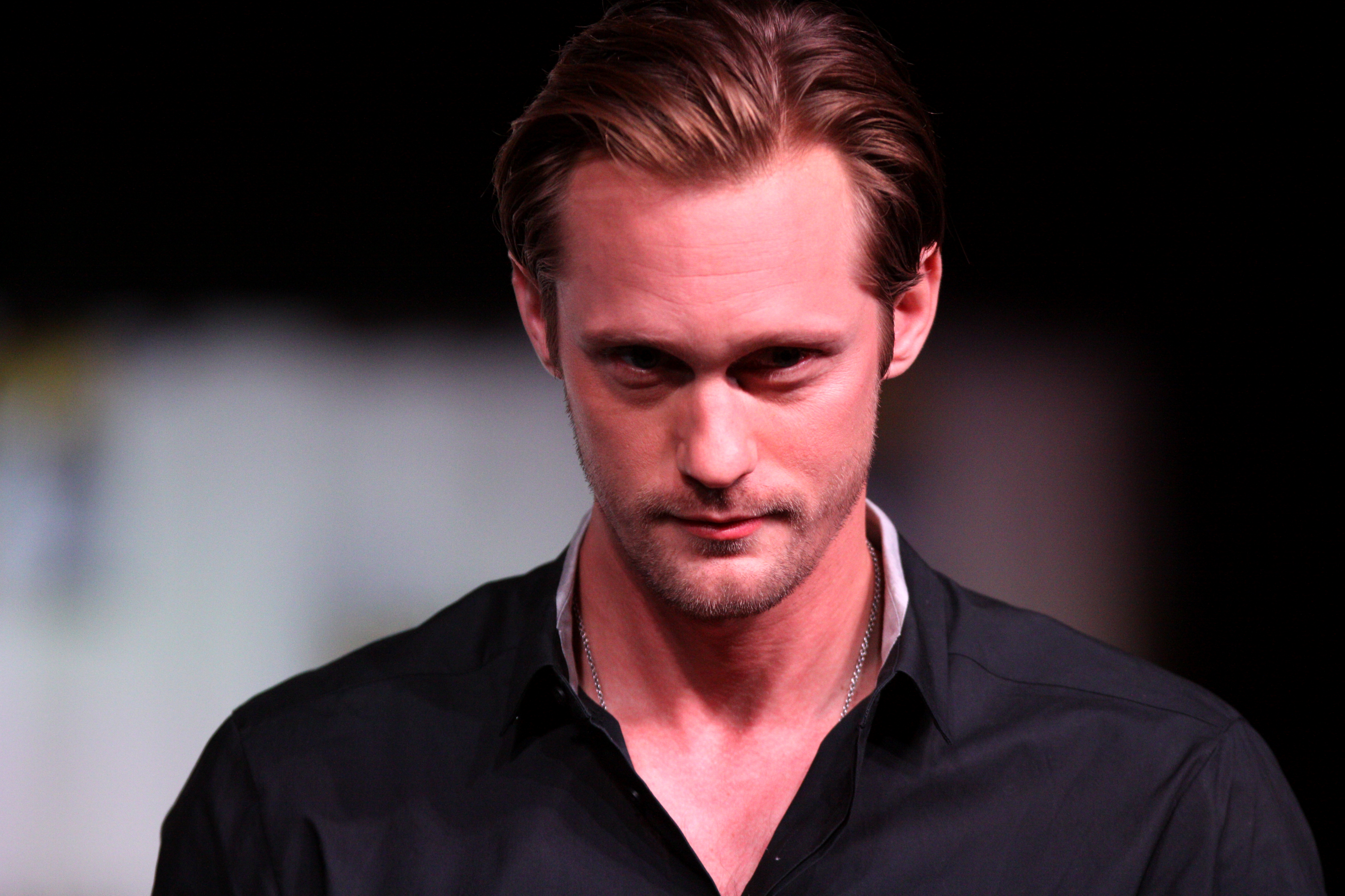 Alexander Skarsgård speaking at the 2012 San Diego Comic-Con International in San Diego, California.